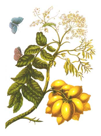 from Metamorphosis insectorum Surinamensium, Plate XIII. (Spondias purpurea)